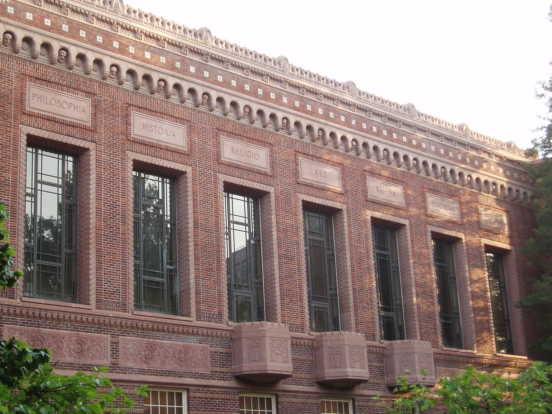 Detail showing the seven engravings over the front windows of the Knight Library, on the University of Oregon campus in Eugene, Oregon.